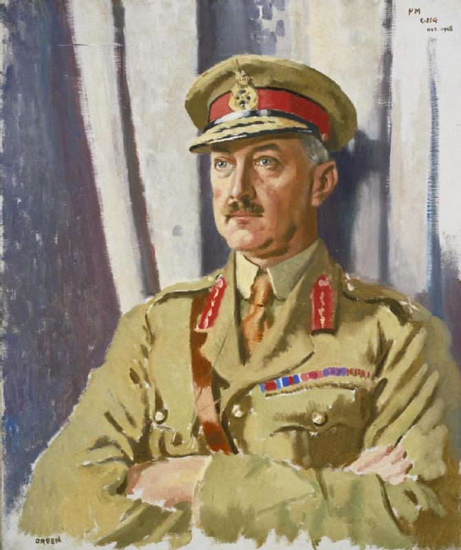 Portrait of Brigadier-General William Thomas Francis Horwood, DSO : Late Provost-Marshal, GHQ, BEF.